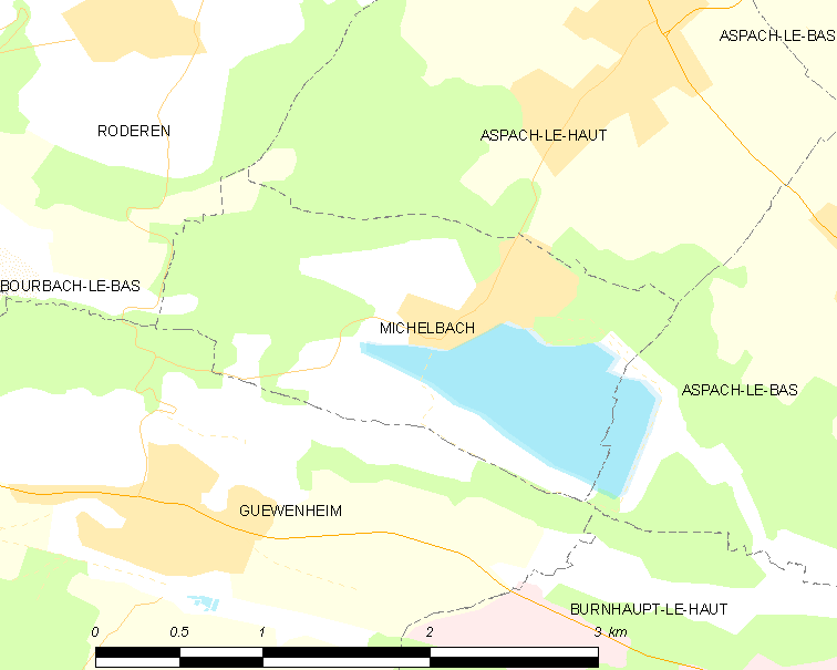 Map of French municipality